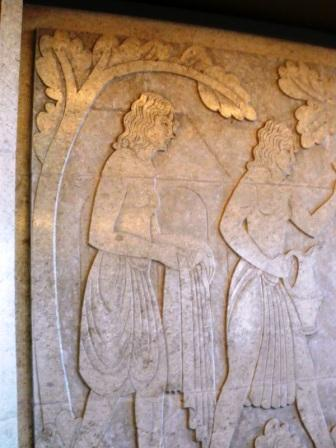 Detail from Eric Gill's relief in the foyer of the Midland Hotel in Morecambe